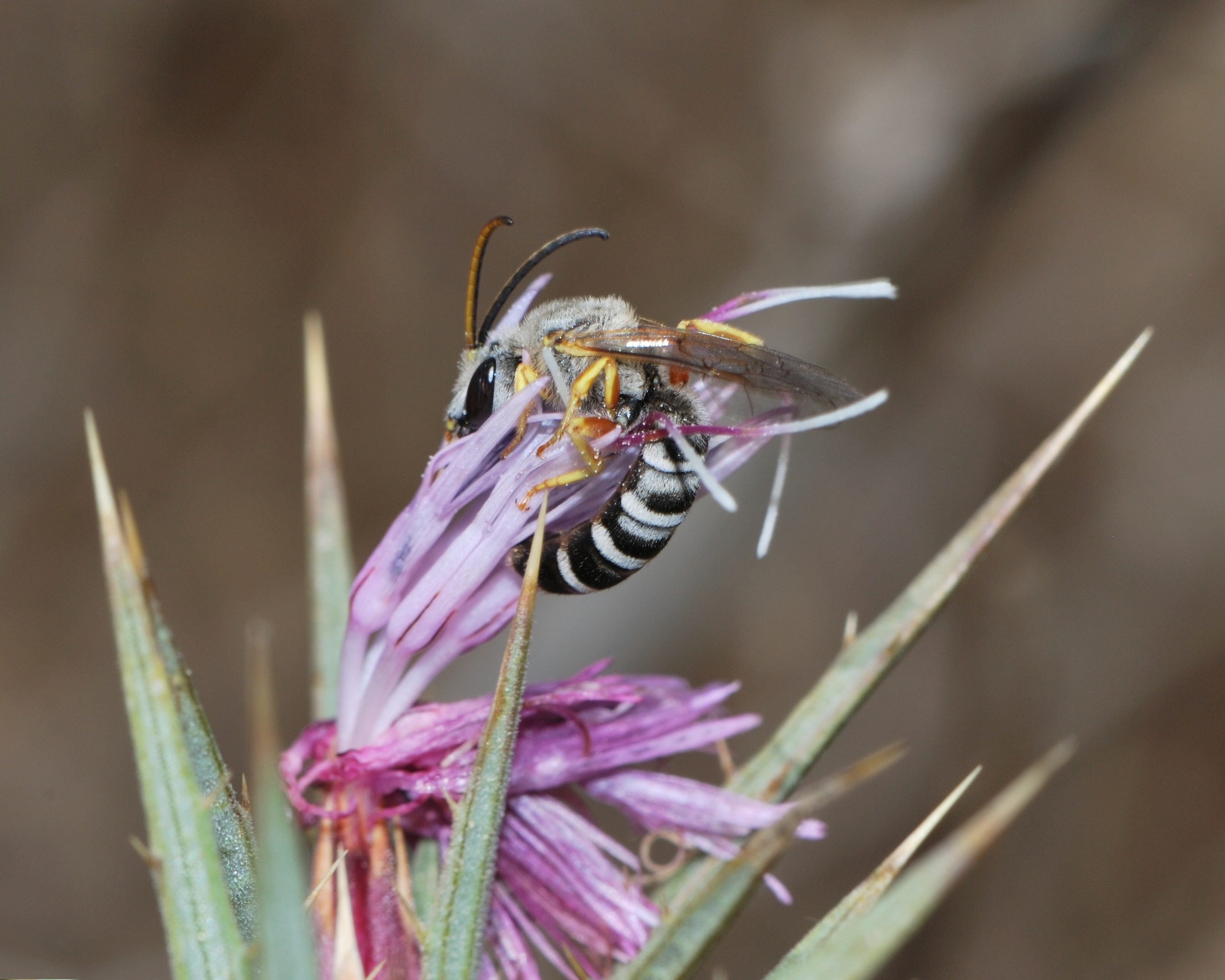 Halictus resurgens, male foraging on Carthamus tenuis, Mount Carmel, Israel, July 29, 2011.